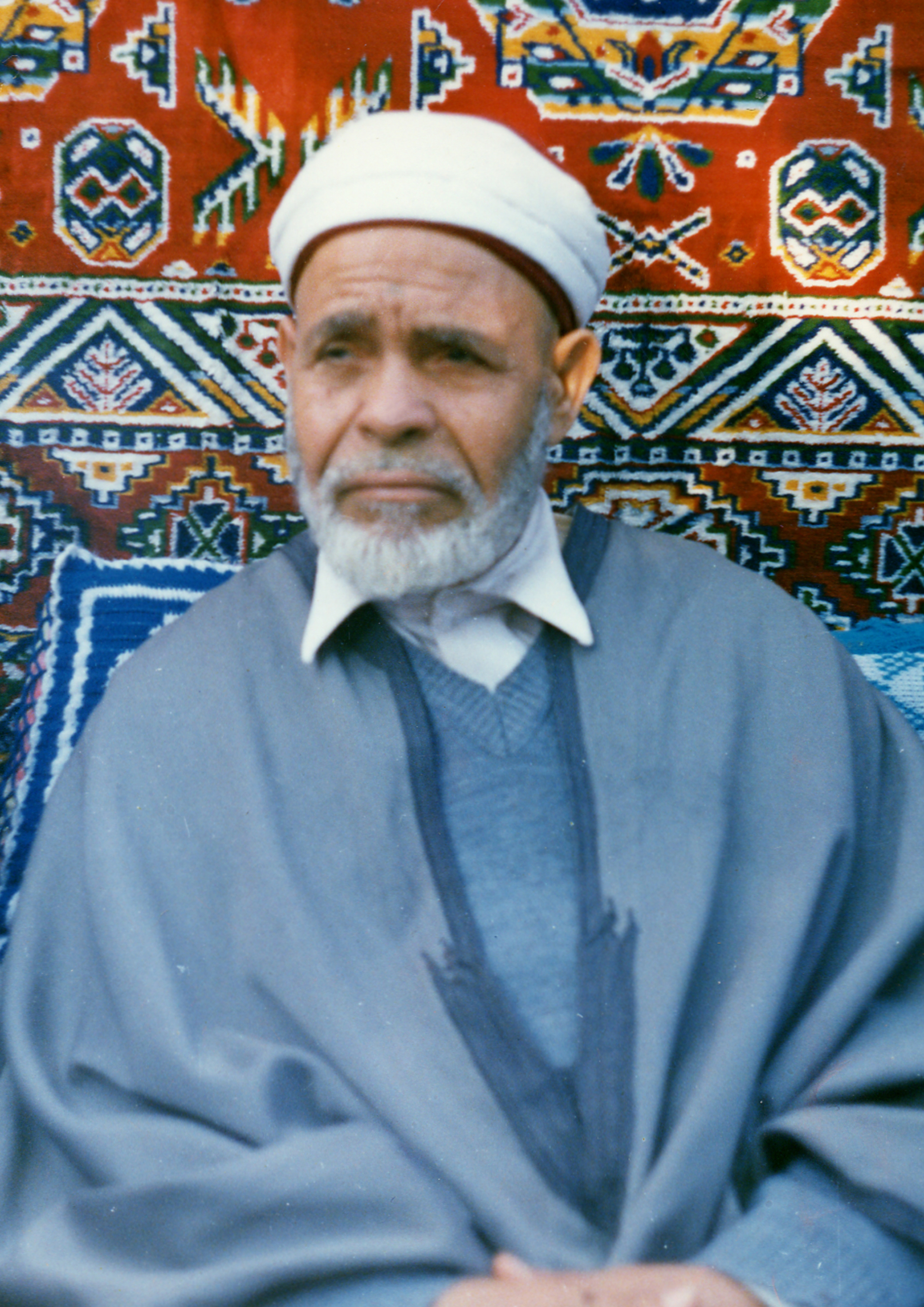 Shaykh Isma'il Hedfi Madani